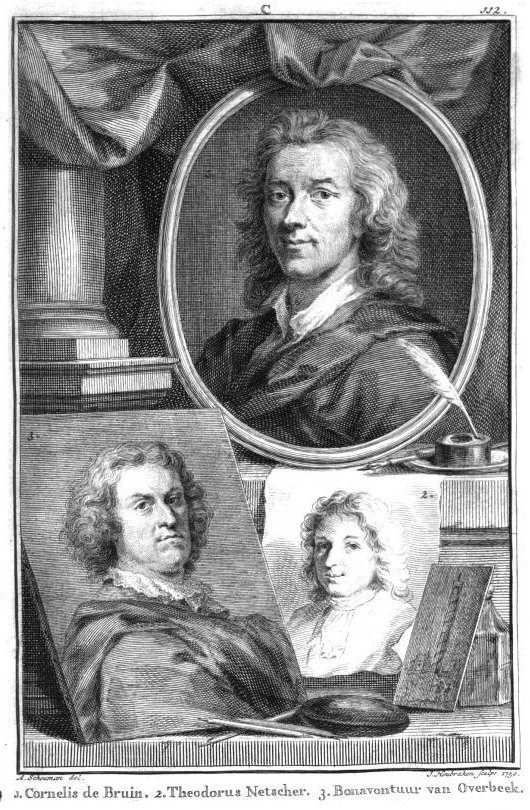 Portraits of Cornelis de Bruin, Theodorus Netscher, Bonaventuur van Overbeek